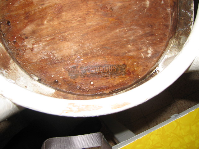 Underside of a Mundus chair, see mundus furniture. This particular chair was in a family home in Hungary, in the very first years of the 20th century. Currently with User:Samfreed Jerusalem, Israel